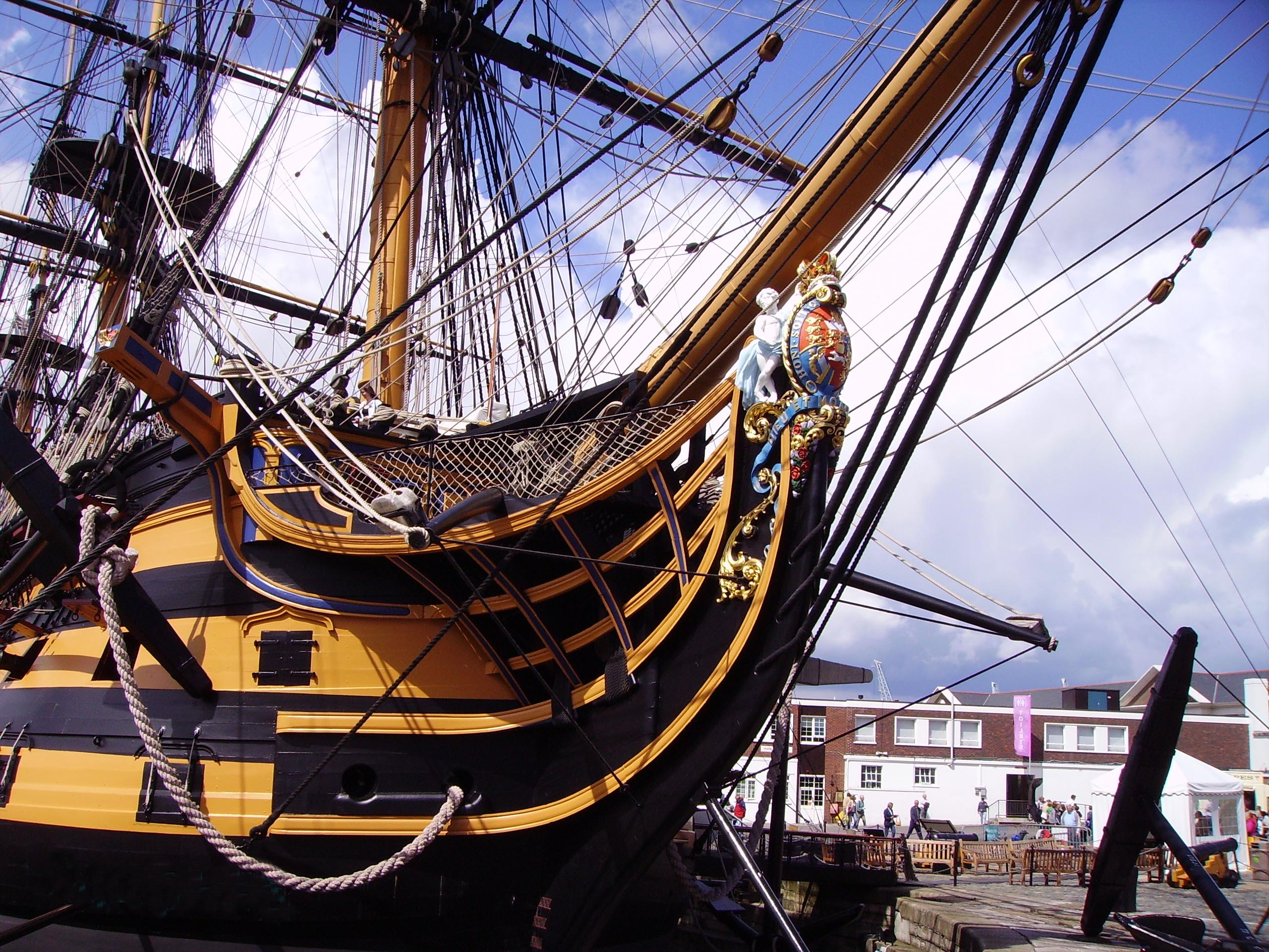 HMS Victory in Portsmouth Dockyard.